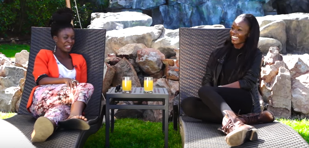 Adeola Ariyo was interviewed by Folu Storms on NdaniTV in S Africa for the "NEW AFRICA" series